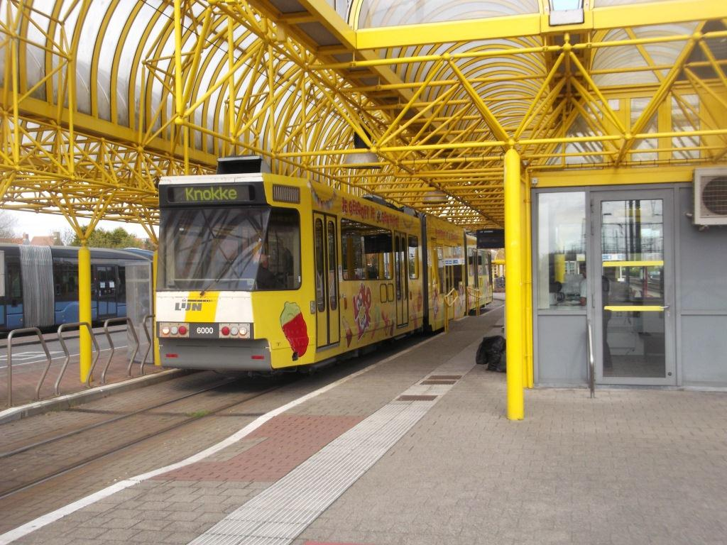 Coast tram, Belgie, De Panne